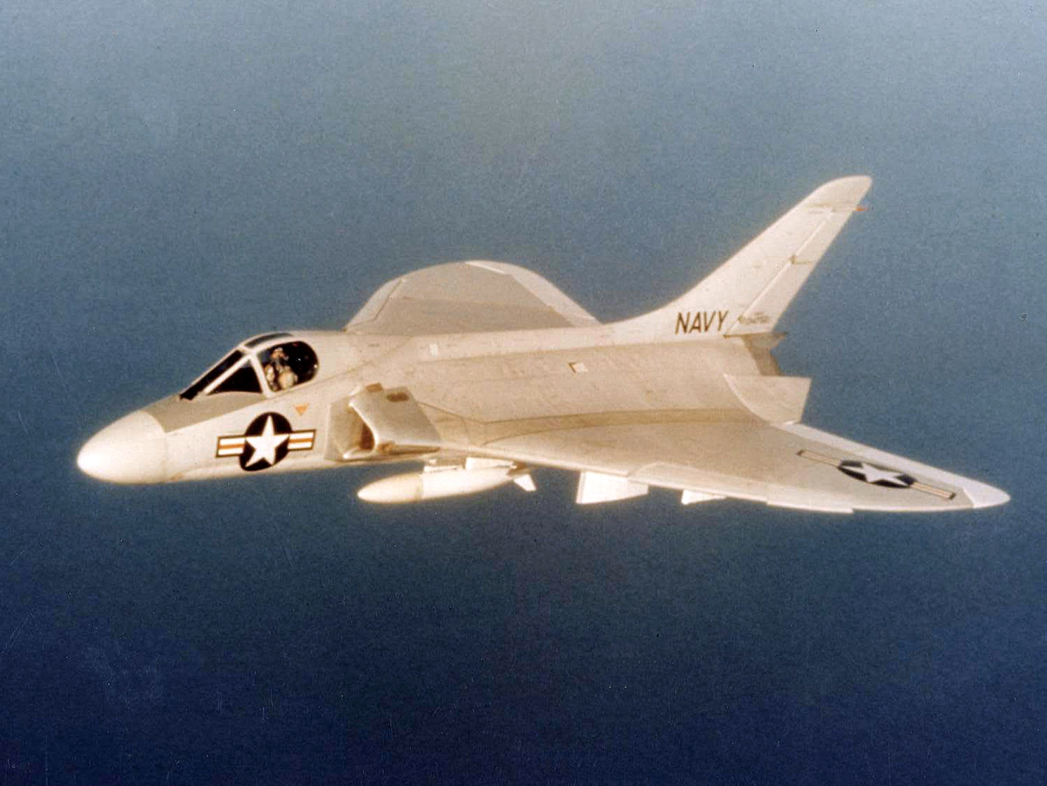 An early U.S. Navy Douglas F4D-1 Skyray in flight. The Skyray, called the "Ford" by its pilots, was accepted for operational use July 1956.